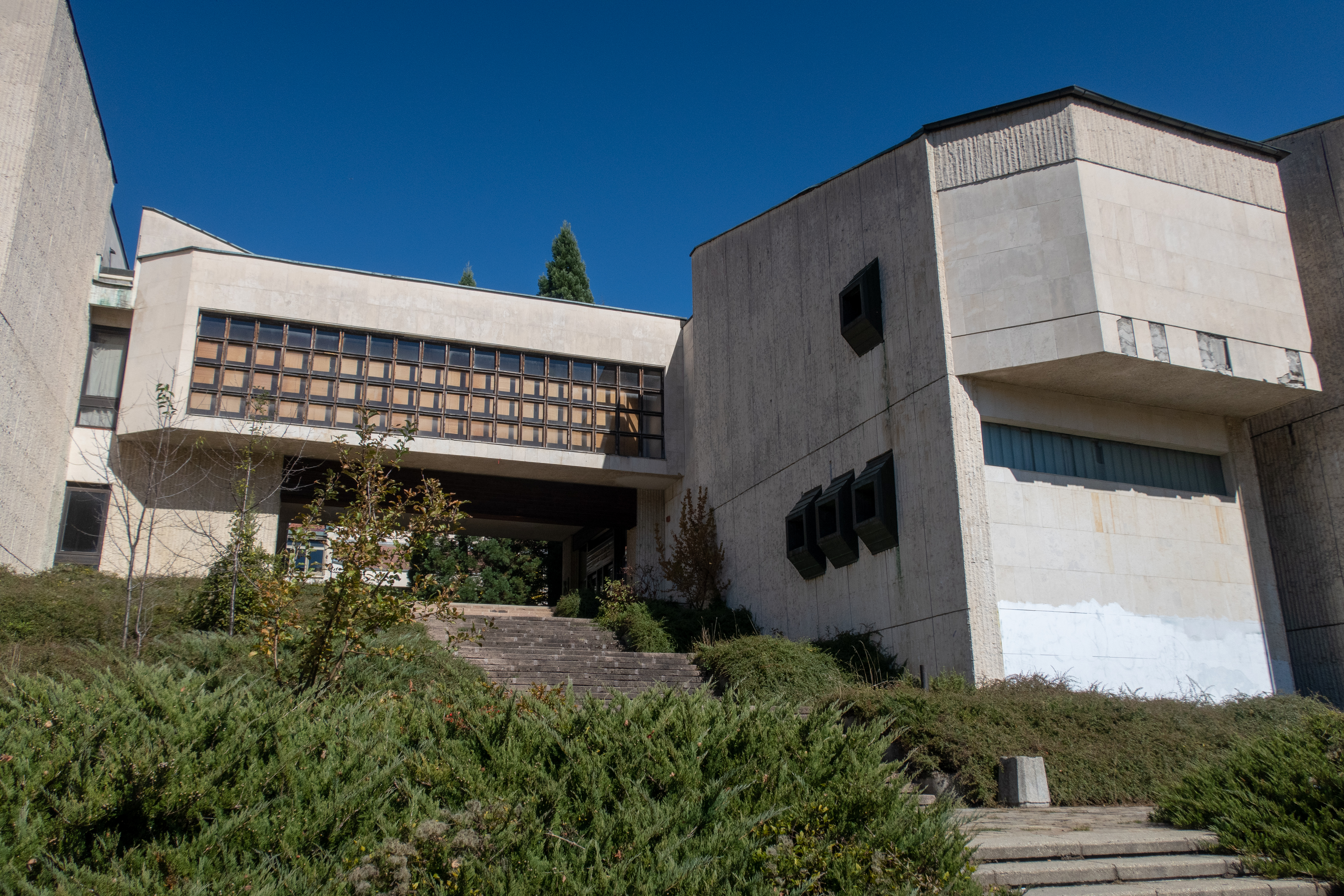 Smolyan